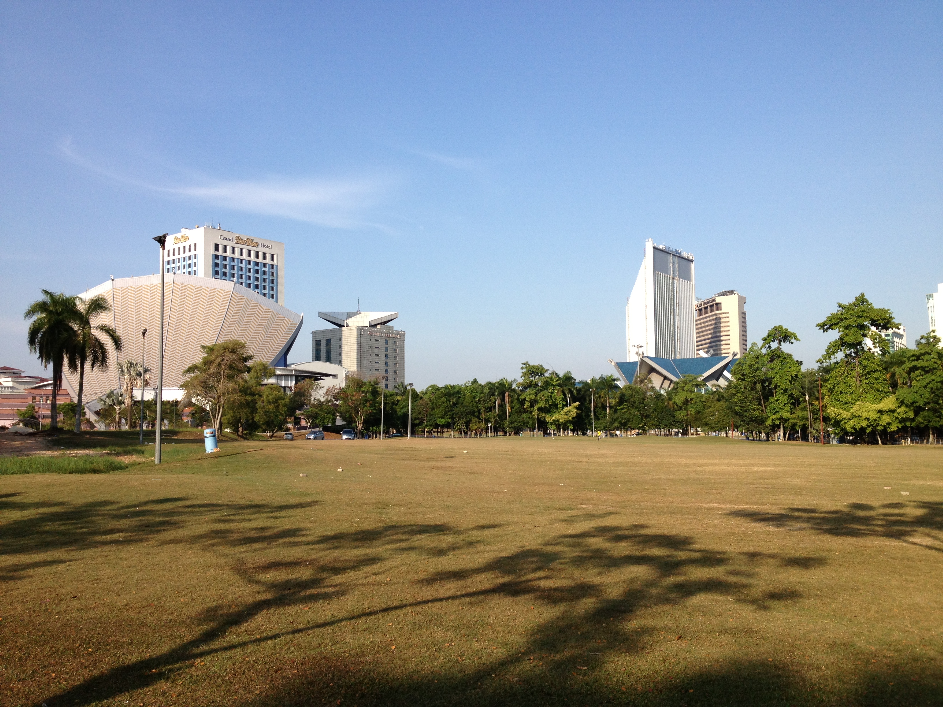 Description: Unidentified park photographed by user. Somewhere in Shah Alam, Selangor.